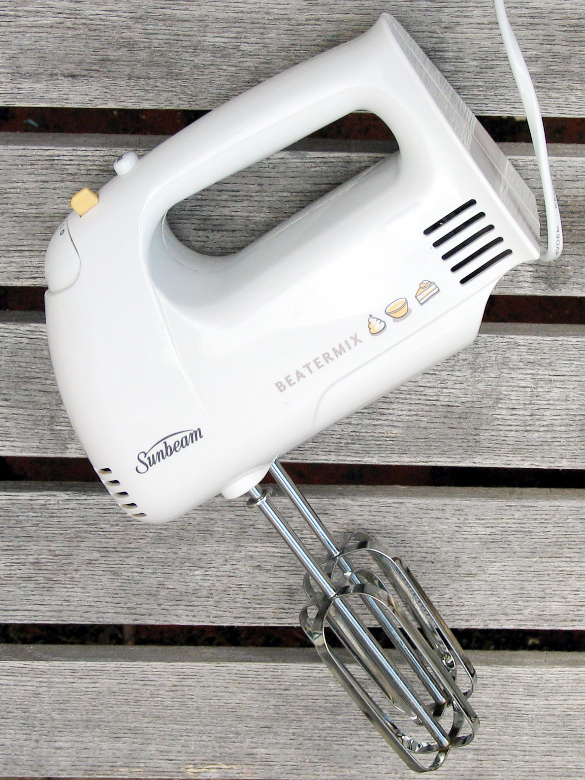 This is a hand-held electric beater (also known as a hand-held electric mixer).